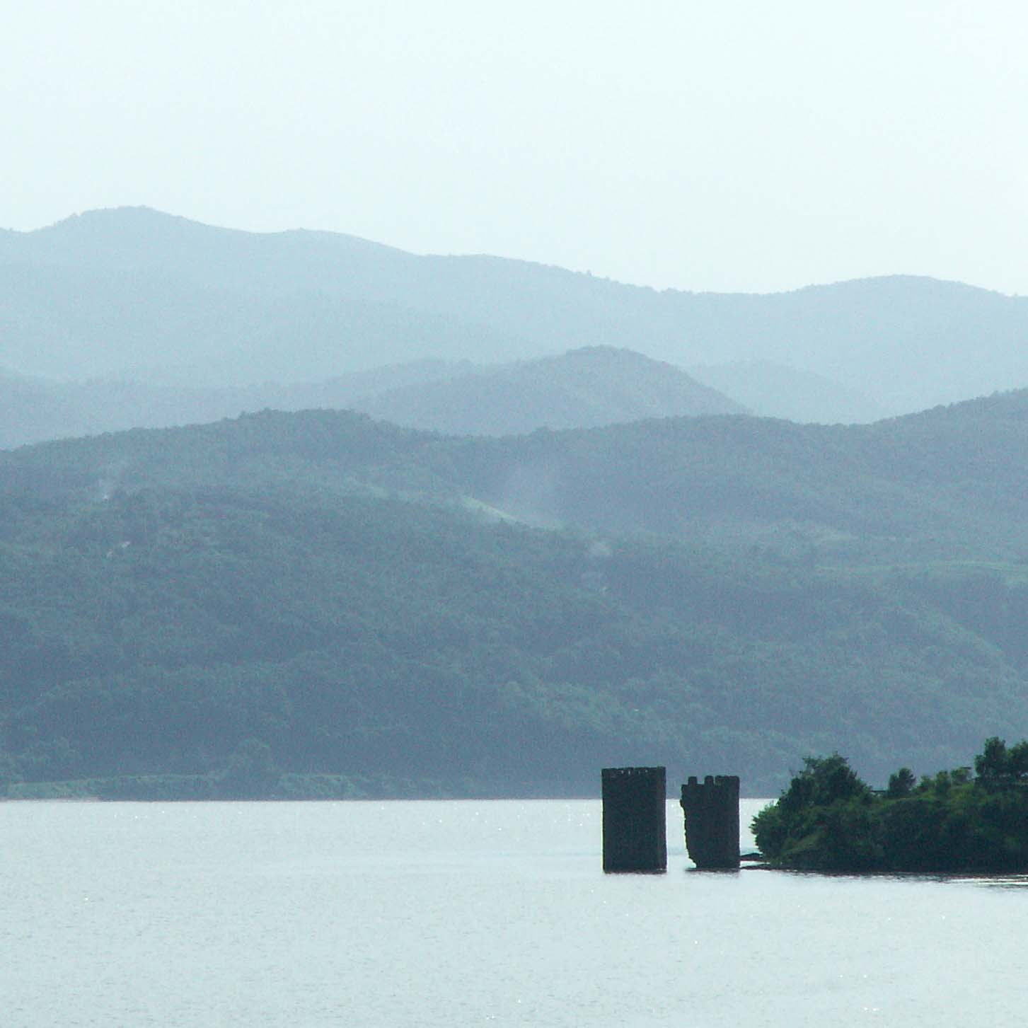 Remains of the medieval ( XIV-th century ?) fortification - Tricule, on the Romanian shore of the Danube, near Svinita. More information on the subject is provided by the restless effort of the guys from Patzinakia